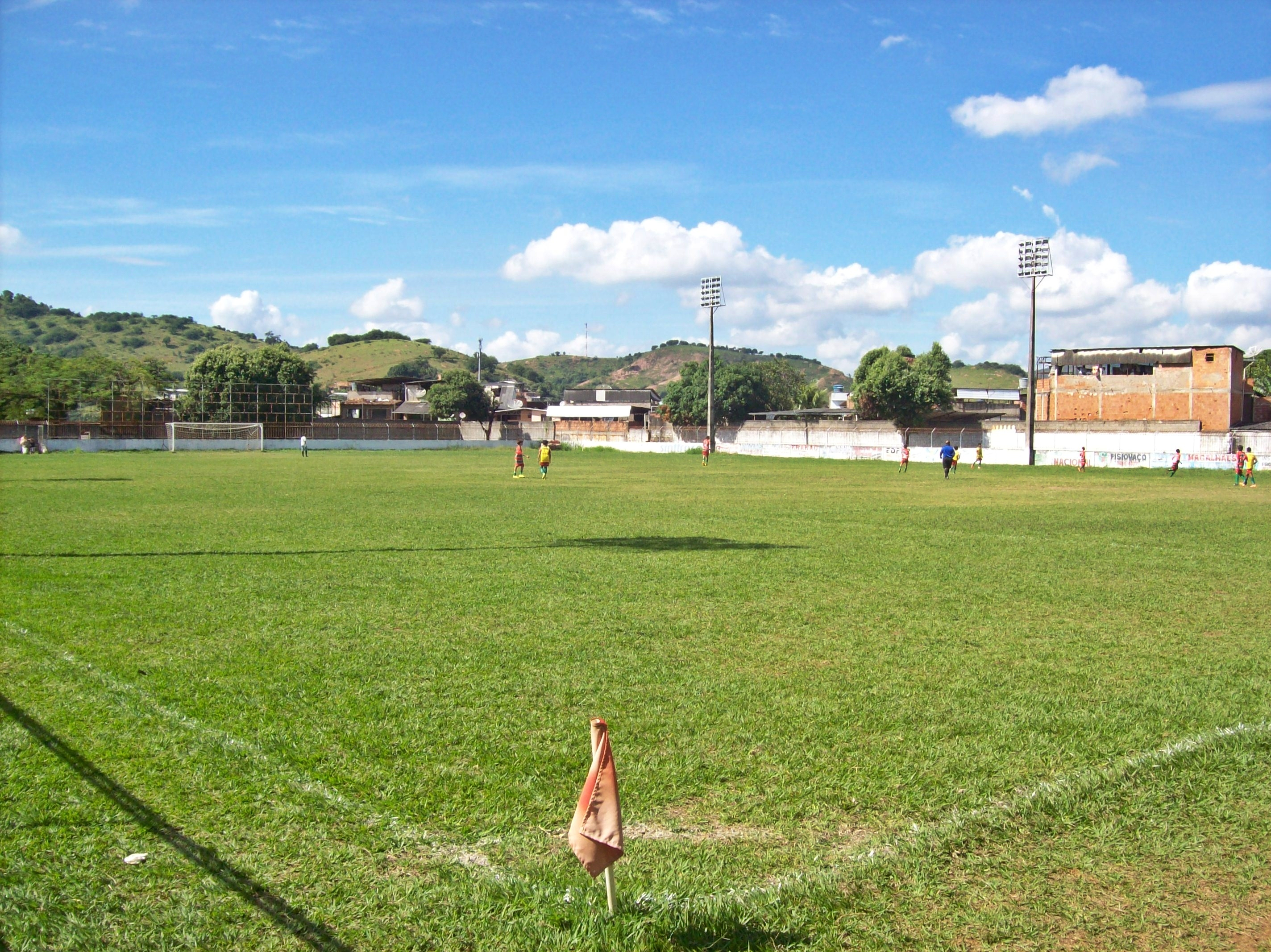 Football pitch of the Josemar Soares Stadium, in Coronel Fabriciano, Minas Gerais, Brazil.